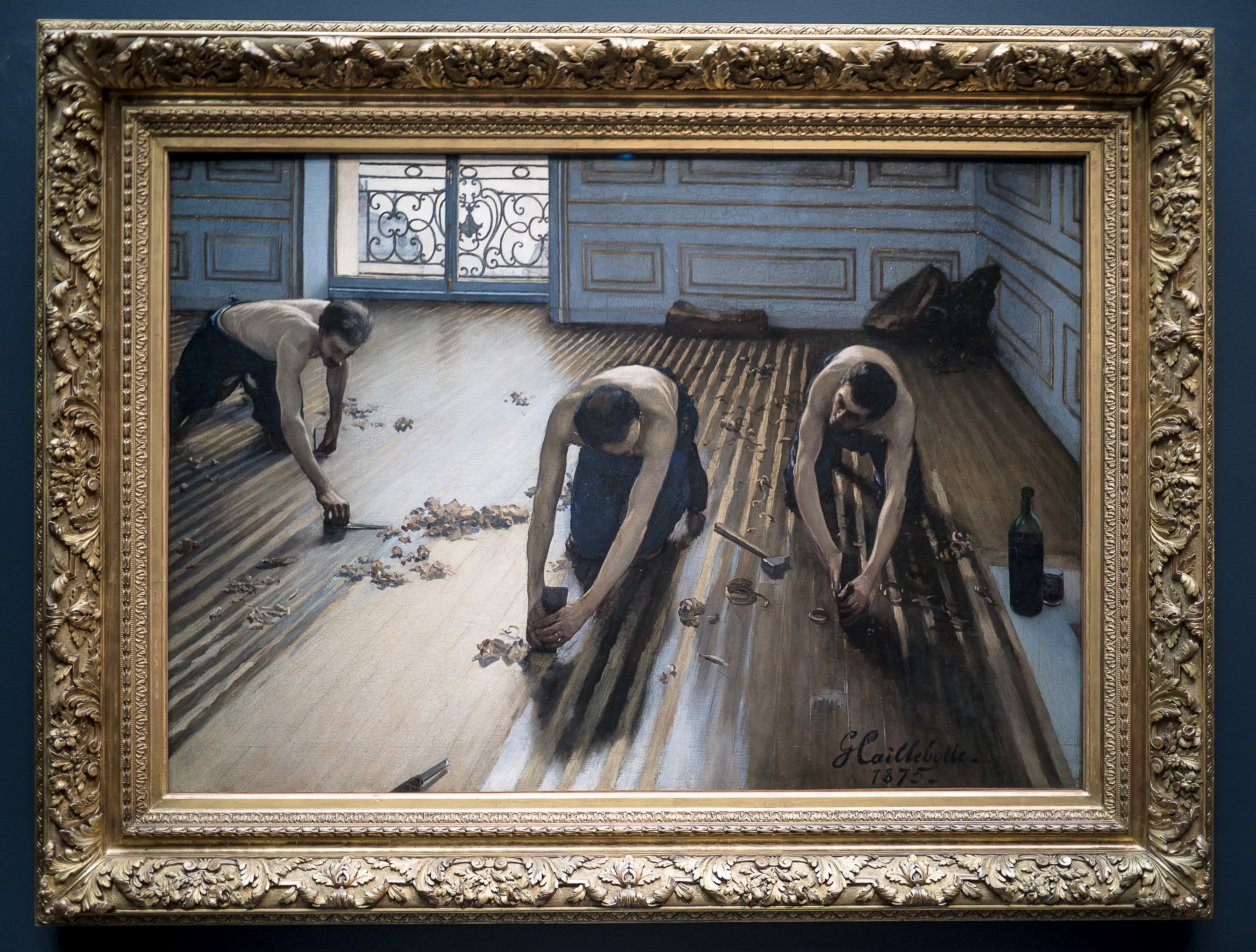 Raboteurs de parquet by Gustave Caillebotte, 1875 - Musée d'Orsay, Paris.